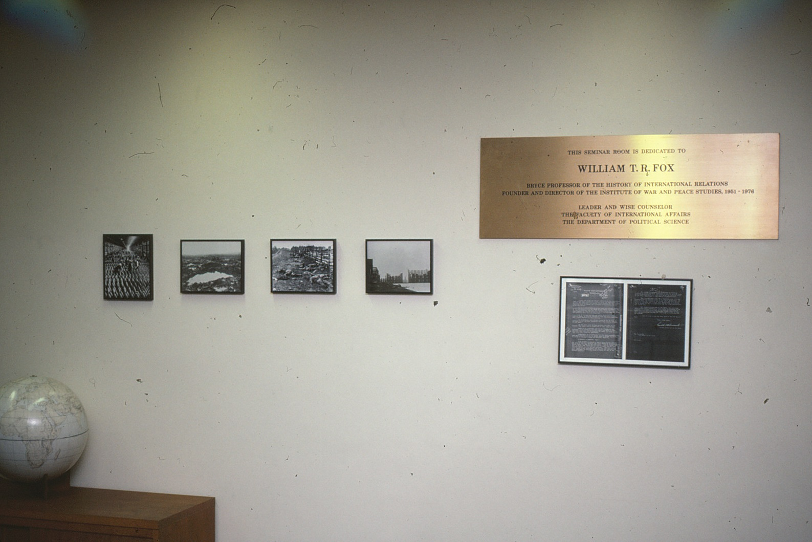 A dedication plaque to William T. R. Fox, the founder and first director (1951-76) of the Institute of War and Peace Studies at Columbia University. The plaque is located in a seminar room at the Institute on the 13th floor of the International Affairs Building. Scan of a Kodachrome slide stamped June 1985 and taken by Warner R. Schilling. Image subsequently inherited by the uploader.